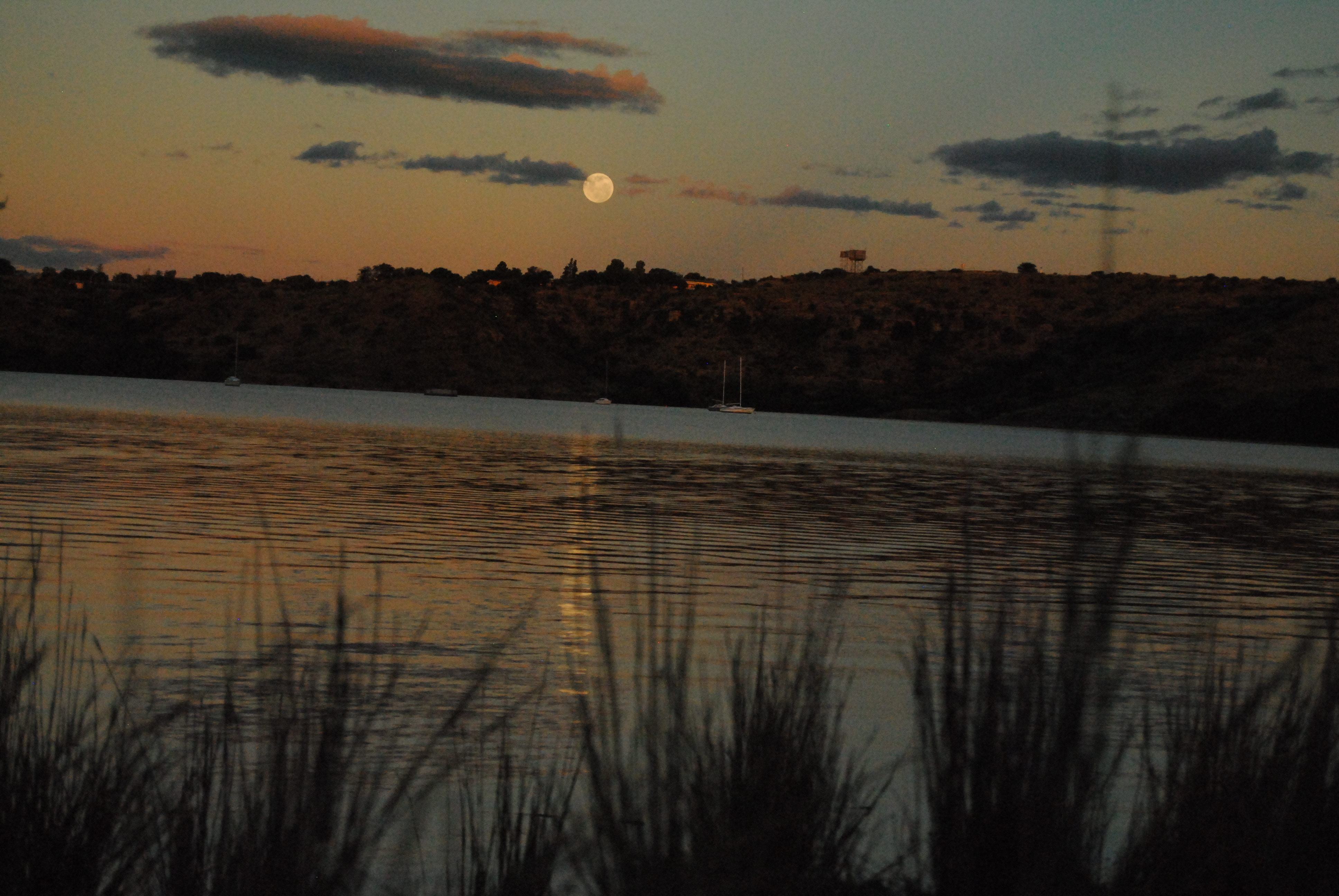 Land of a Thousand Sunsests - Oviston Gariep